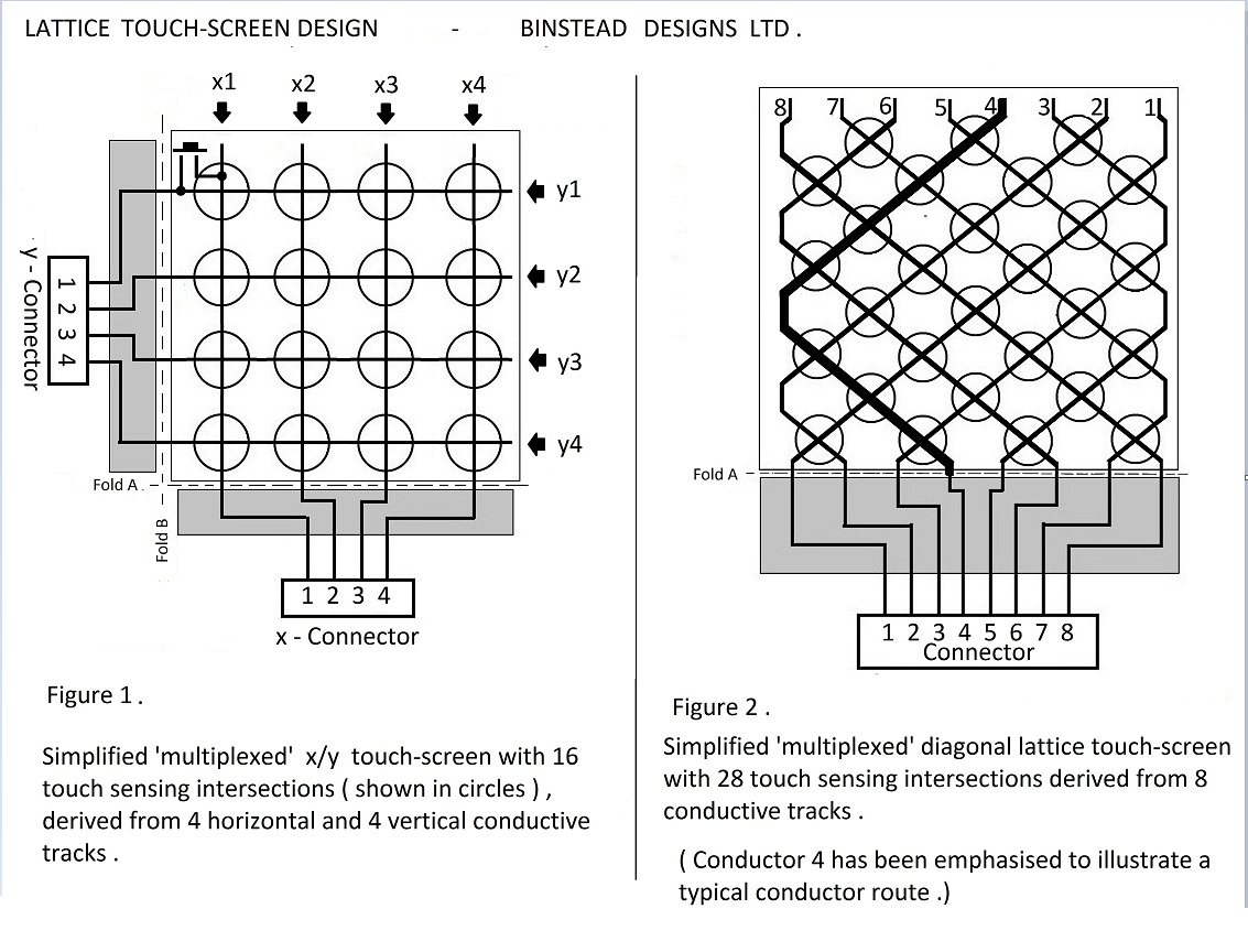 This diagram shows how eight inputs to a lattice touchscreen or keypad creates 28 unique intersections, as opposed to 16 intersections created using a standard x/y multiplexed touchscreen .